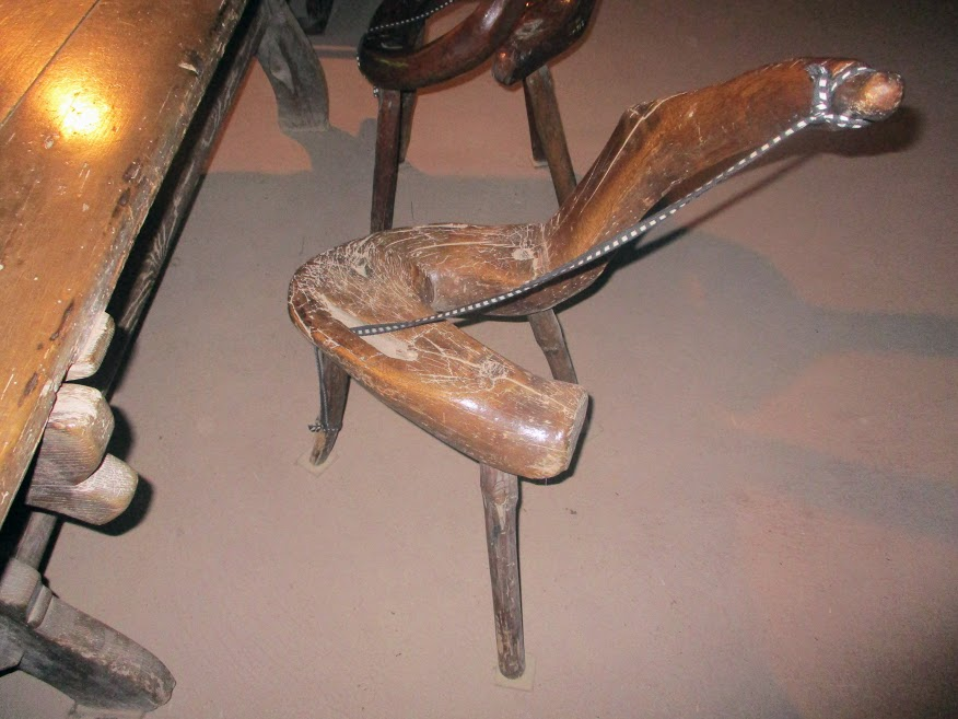 Latvian ethnographic chairs Stulpiņi at The Ethnographic Open-Air Museum of Latvia.